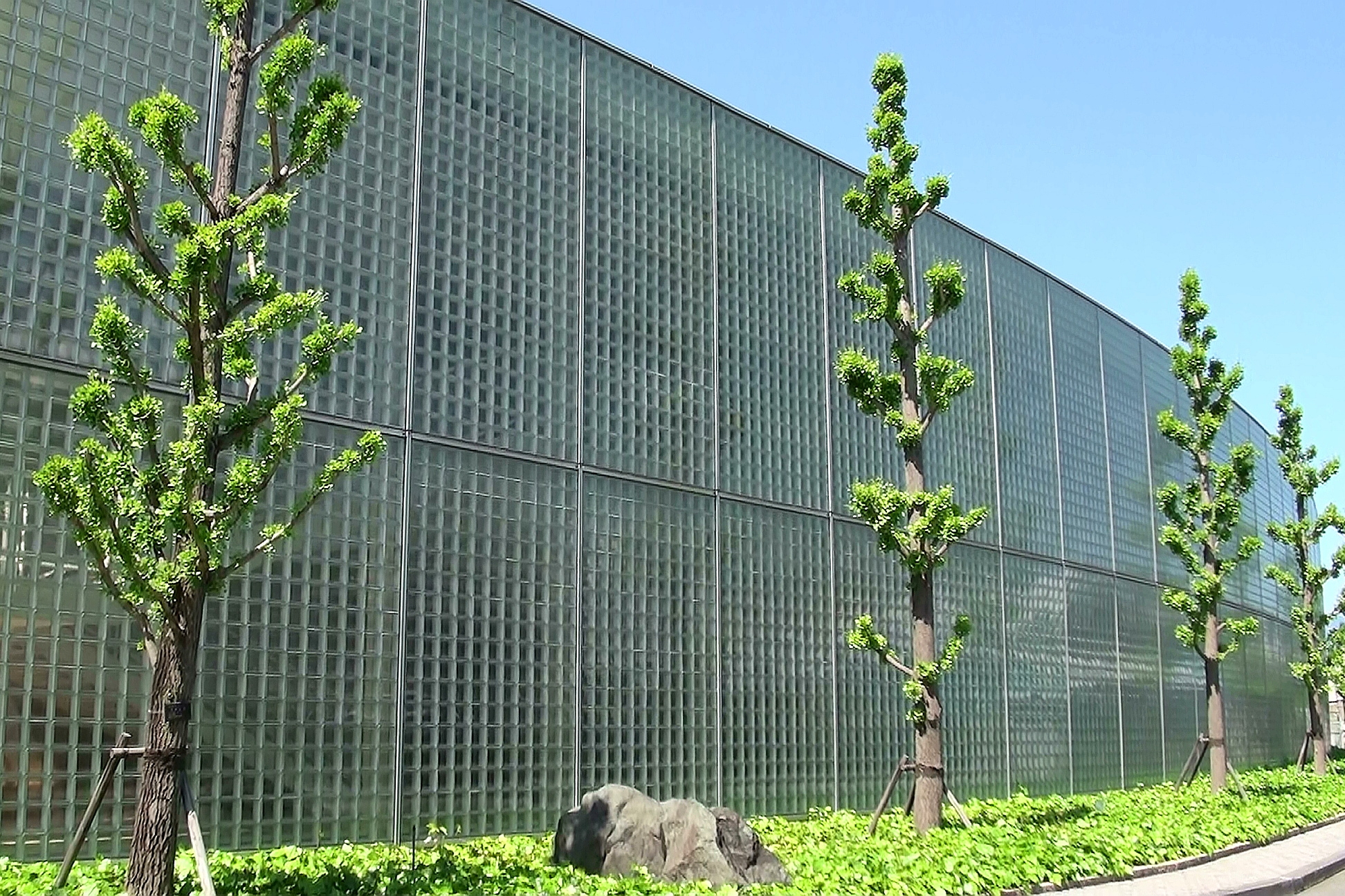 Yamanashigakuin elementary school glass block outer wall